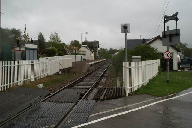 Corpach Station, from the level crossing On the Fort Wiliam - Mallaig line.